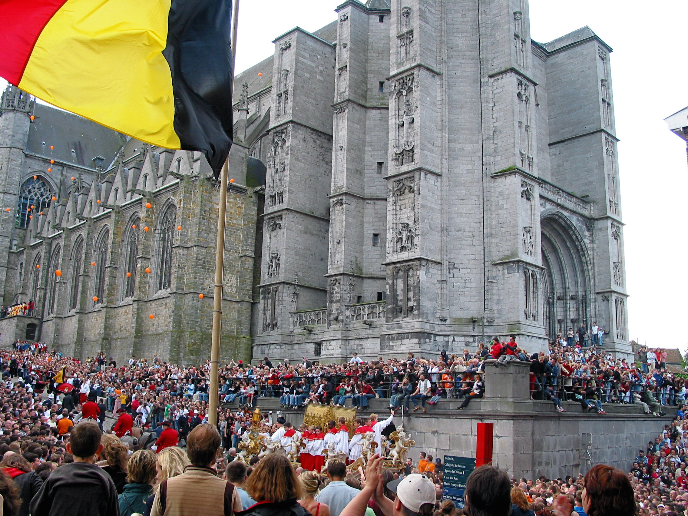 Mons(Belgium), the climb of the Golden Car in the St Waudru ramp.